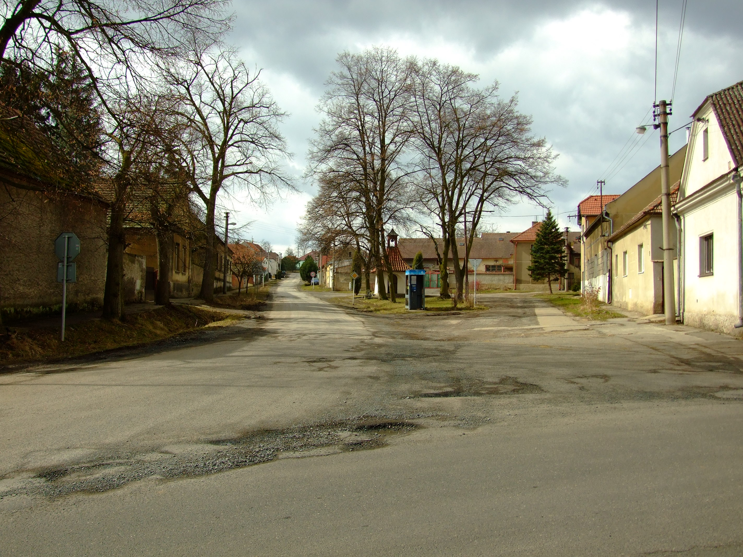 Town Ptice and surrounding nature in Central Bohemian region, CZhelp